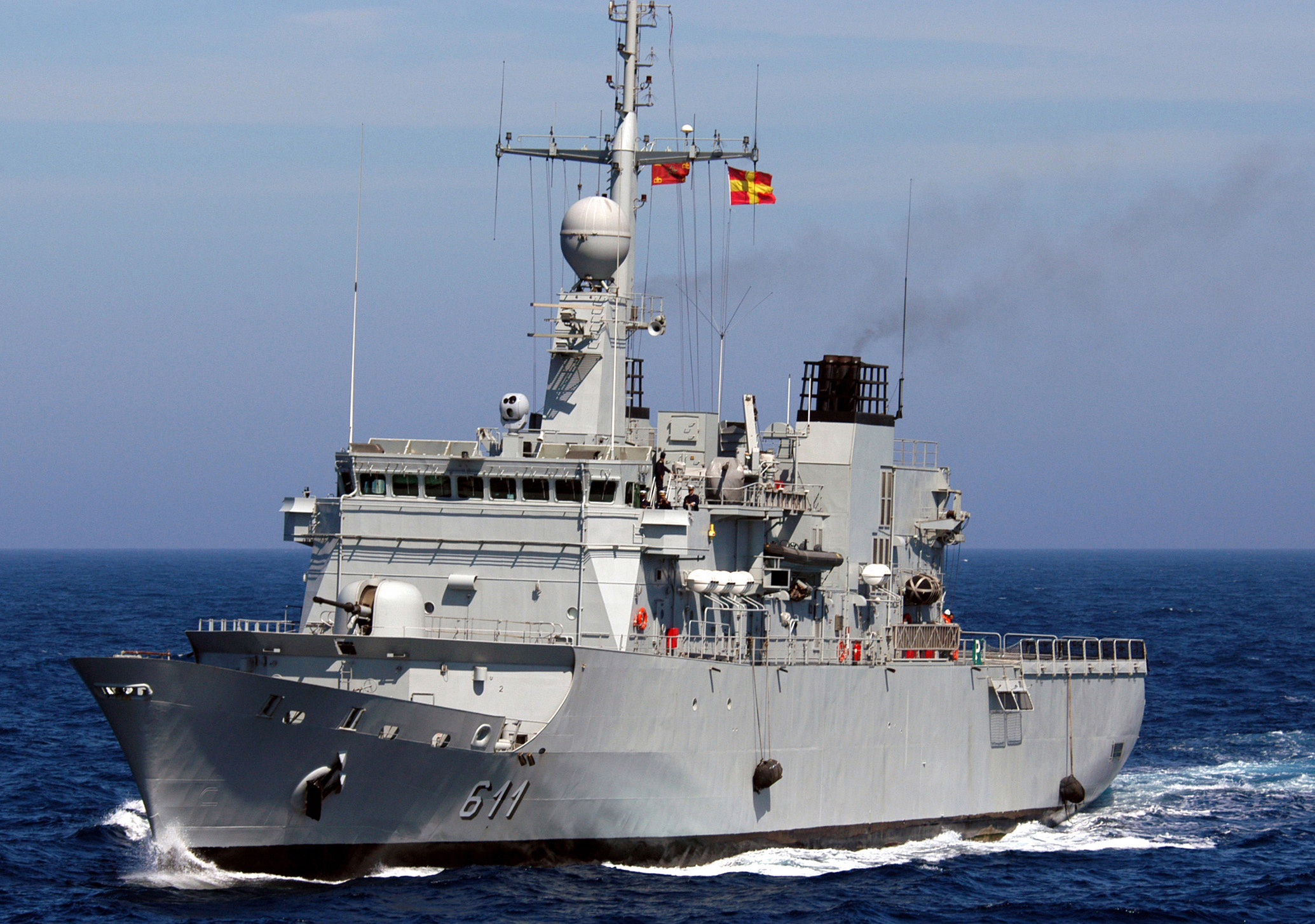 A port side bow view of the Moroccan Navy Floreal Class Frigate MUHAMMED V (FFGHM 611) conduct maneuvers with the coalition ships escorting them through the Strait of Gibraltar, the gateway of the Mediterranean Sea in support of the Global War on Terrorism (GWOT).